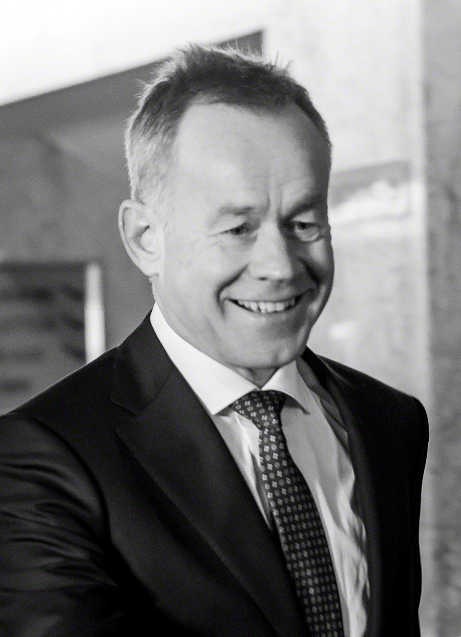 Amund Djuve at Governor Øystein Olsen's annual address in February 2016